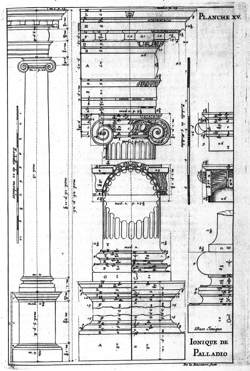 Reconstruction and Analysis of Ionic Order following Palladio by Francois Blondel's Cours d'Architecture. Paris 21698